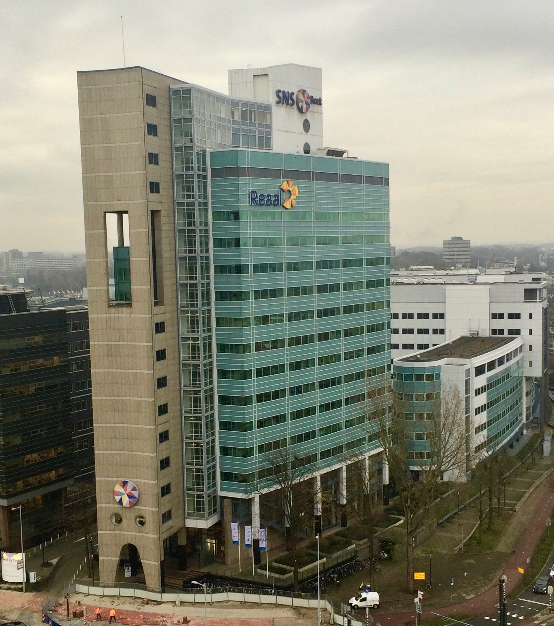 Croeselaan 1 in Utrecht, The Netherlands. At the time serving as the SNS Bank and SNS REAAL headquarters.